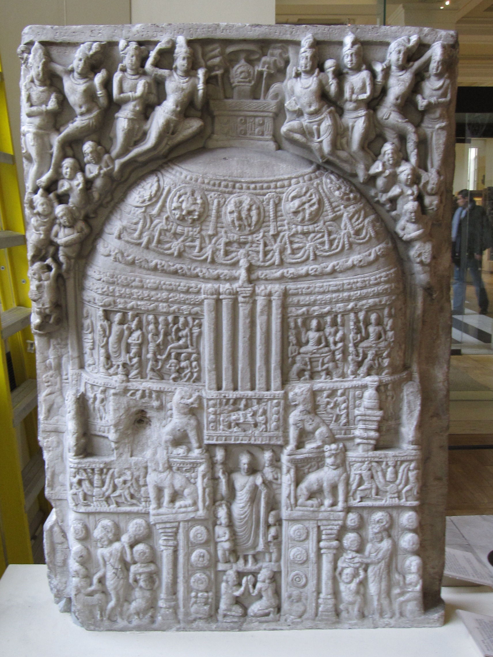 Drum slab. Limestone, 3rd century CE. This slab was first carved in about the 1st century BCE. When the Great Stupa was refurbished under the patronage of the Satavahana rulers beginning in about the 2nd century CE, the slab was turned over and carved on this side with a Buddha figure within the stupa. Side B: The Great Stupa at Amaravati with the Buddha standing in human form in the entrance to the monument. OA 1880.7-9.79.